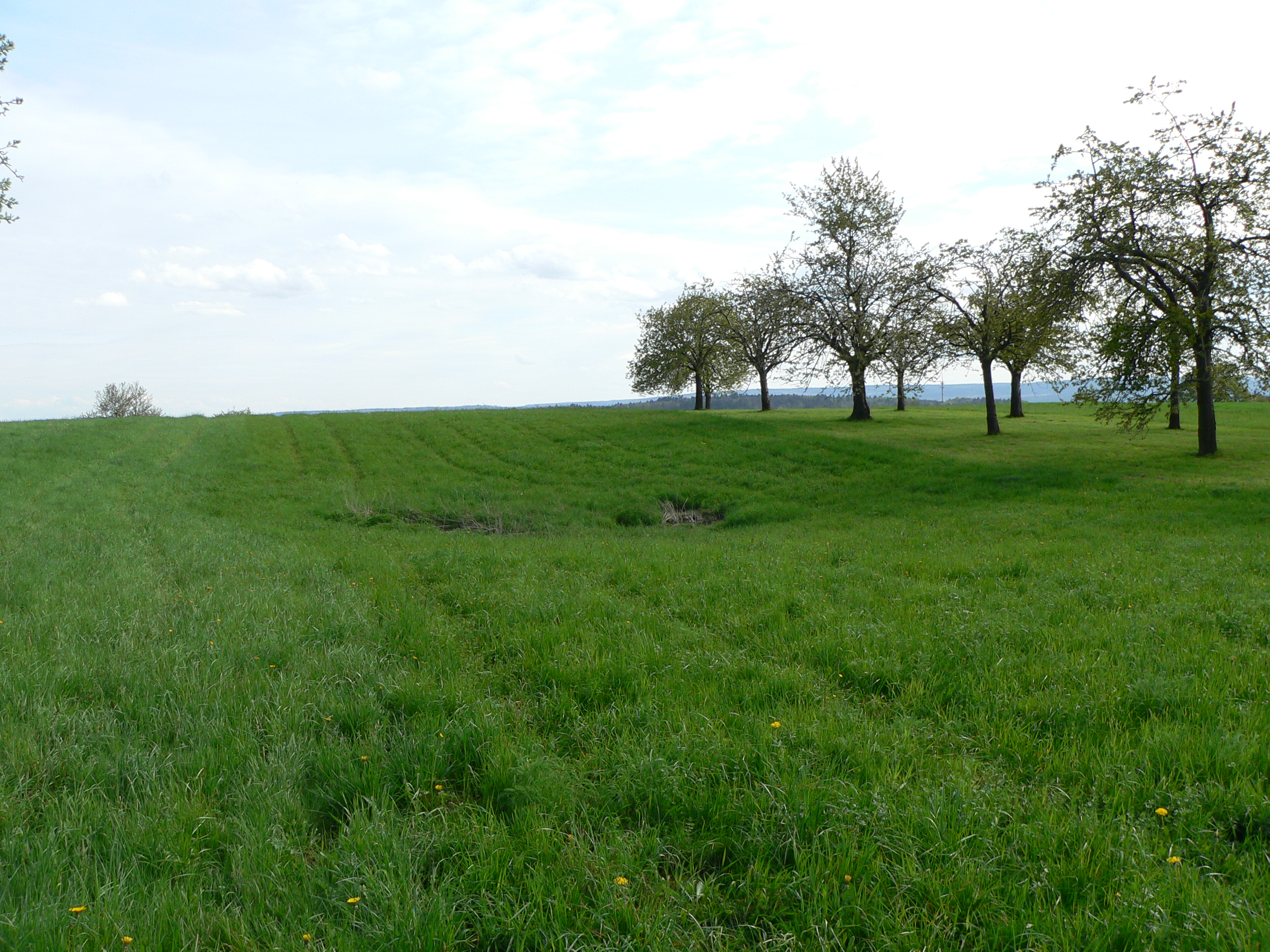 one of the little sinkholes in the Eisinger Loch field near Neulingen, Germany